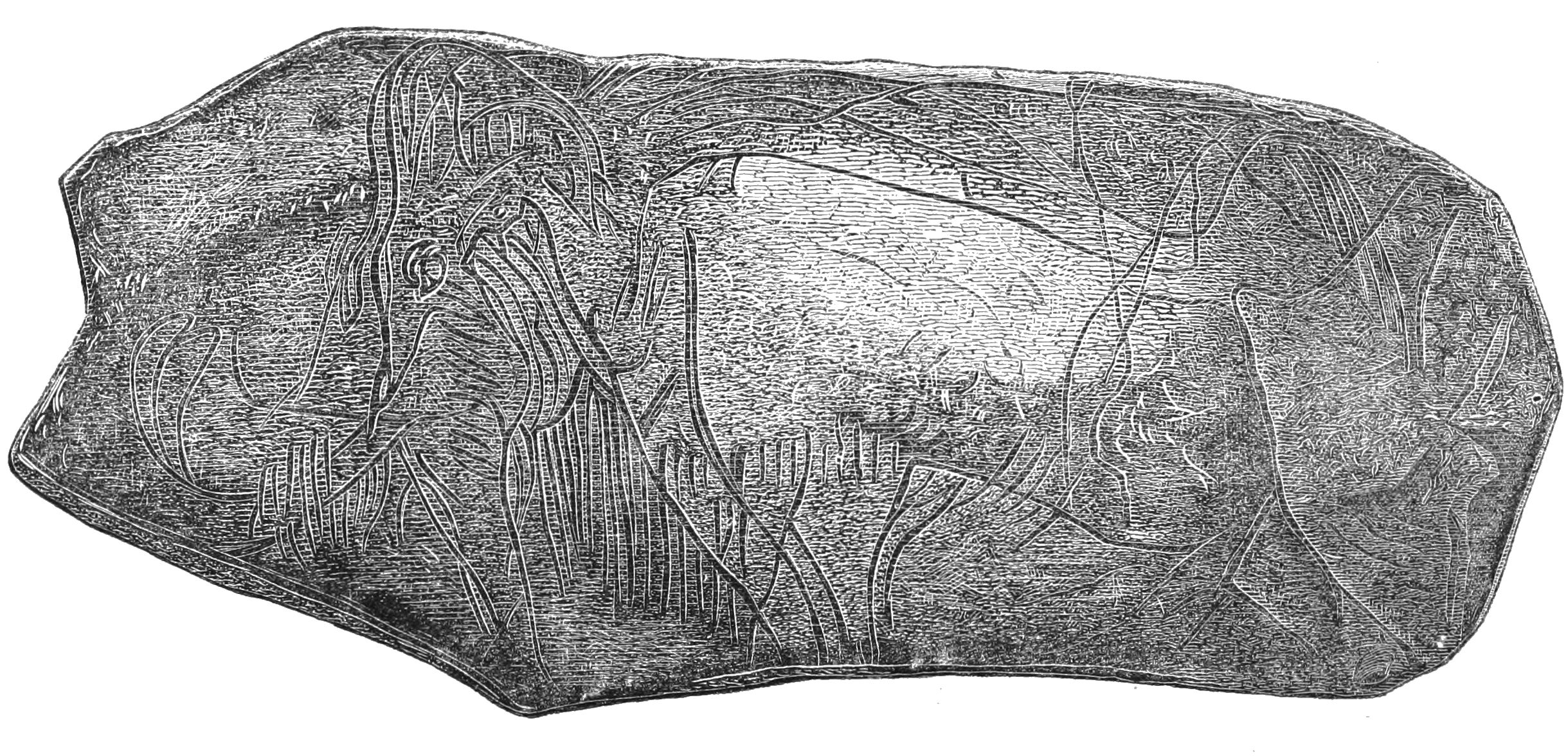 Woolly mammoth carved in ivory, discovered by Édouard Lartet in 1864.